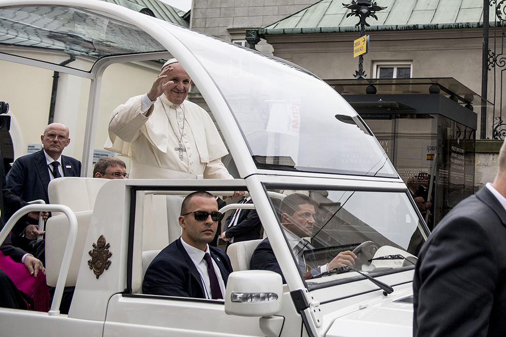 28.07.2016, Częstochowa | W trzecim dniu Światowych Dni Młodzieży premier Beata Szydło uczestniczy we mszy świętej celebrowanej na Wałach Jasnogórskich w związku z 1050. rocznicą Chrztu Polski. Fot. P. Tracz / KPRM